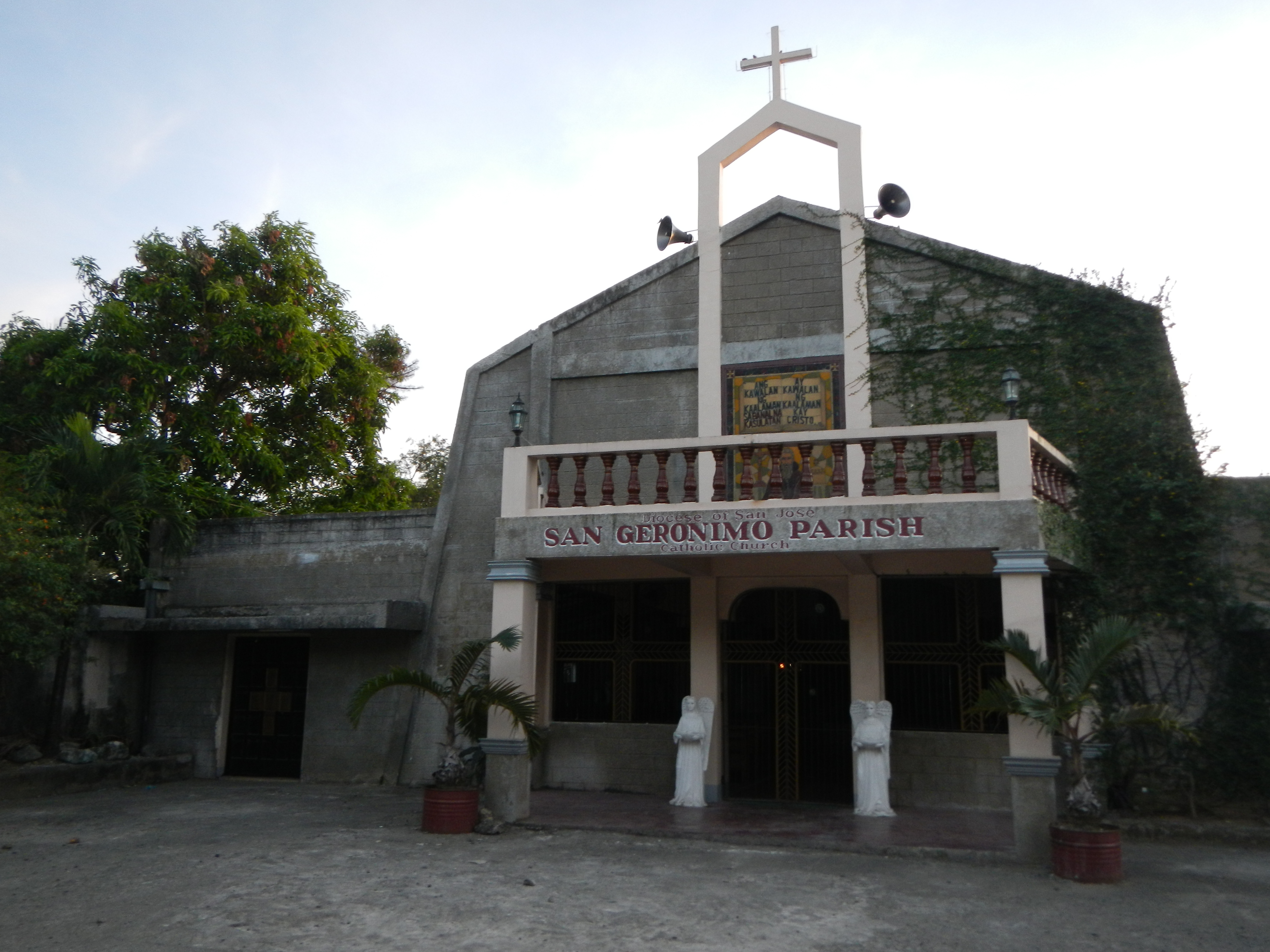 St. Jerome Parish Church, Brgy. Baloc, Sto. Domingo, 3133Nueva Ecija Parish Priest: Fr. Rosalito F. Cabanting Population: 45,049 Catholics -8% Nueva Ecija -[1] Roman Catholic Diocese of San Jose in the Philippines[2]Most. Rev. Roberto Calara Mallari, D.D. (since 15 May 2012), Vicariate of St. Dominic[3] (Diocesis Sancti Josephi in Insulis Philippinis) Suffragan of Lingayen-Dagupan (Created: February 16, 1984. Erected: July 14, 1984. Comprises the City of San Jose and the Science City of Muñoz and 12 other municipalities in Northern Nueva Ecija. Titular: St. Joseph the Worker, May 1)[4] Vicariate of St. Dominic[5] Vicar Forane:Fr. Bonifacio P. Flores